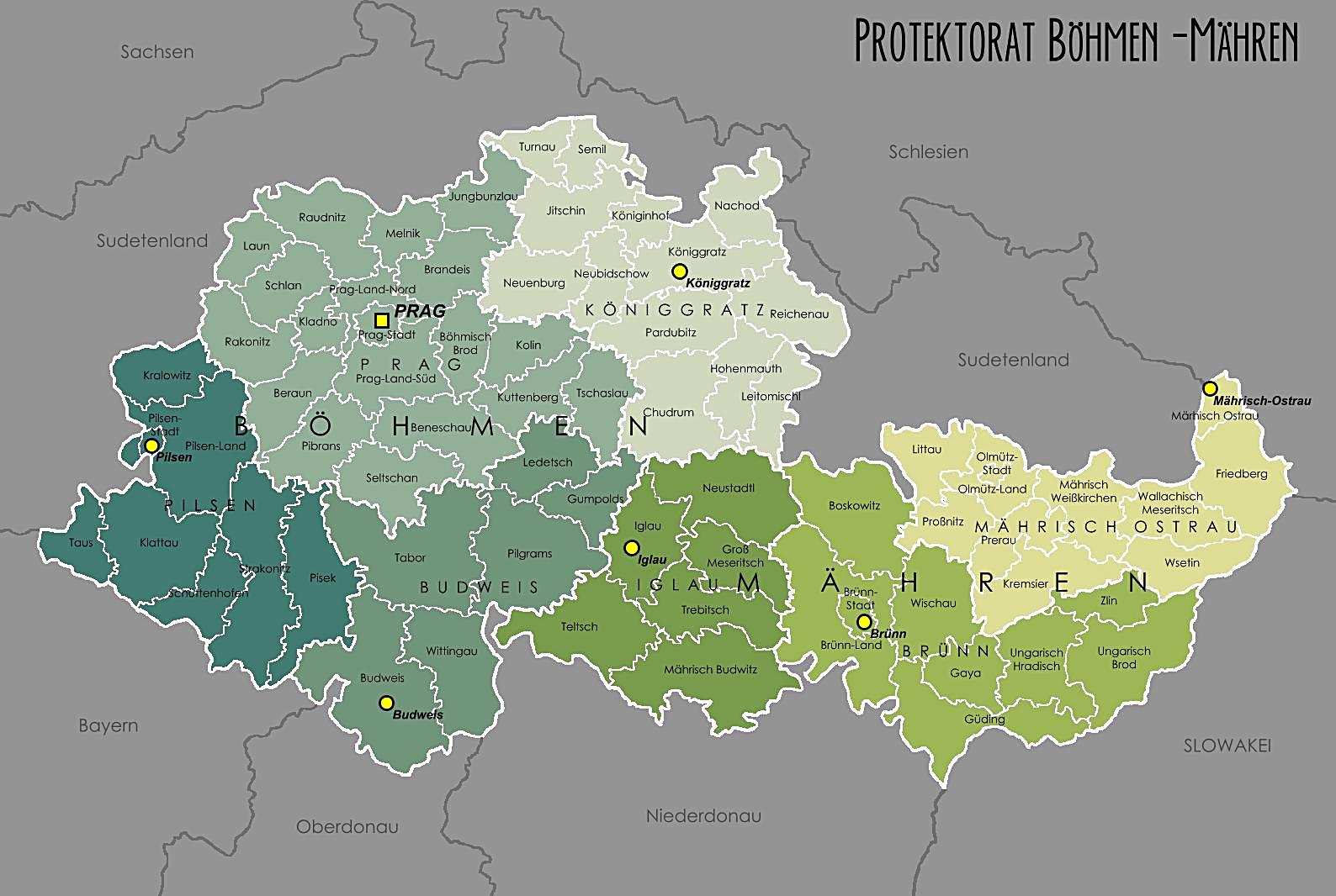 Administrative map of The Protectorate of Bohemia-Moravia